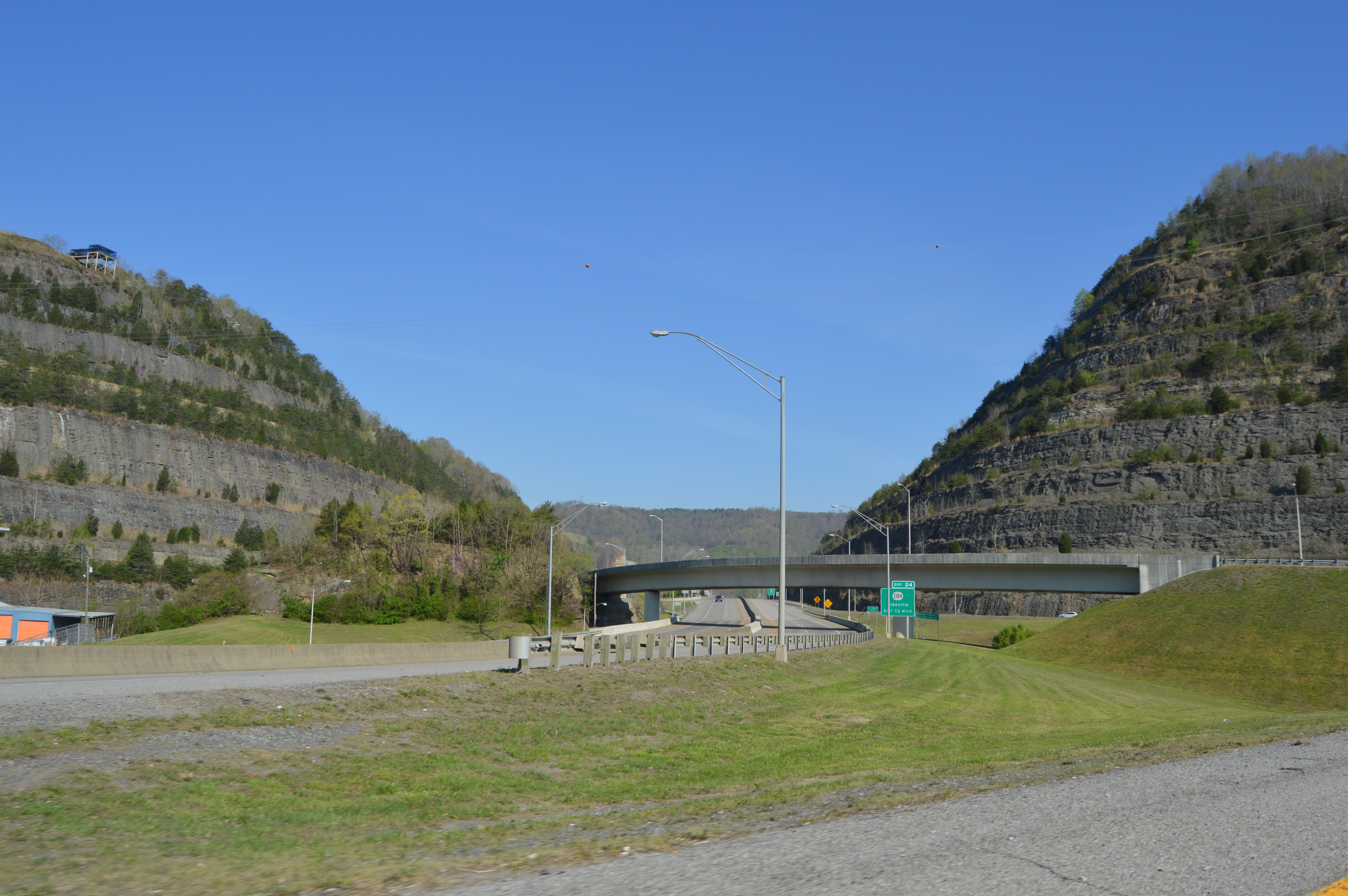 Looking northward through the Pikeville Cut-Through in Pikeville, Kentucky, United States.